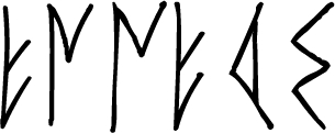 Iberian family name Enneges (Íñiguez in Catalan) in Iberian script